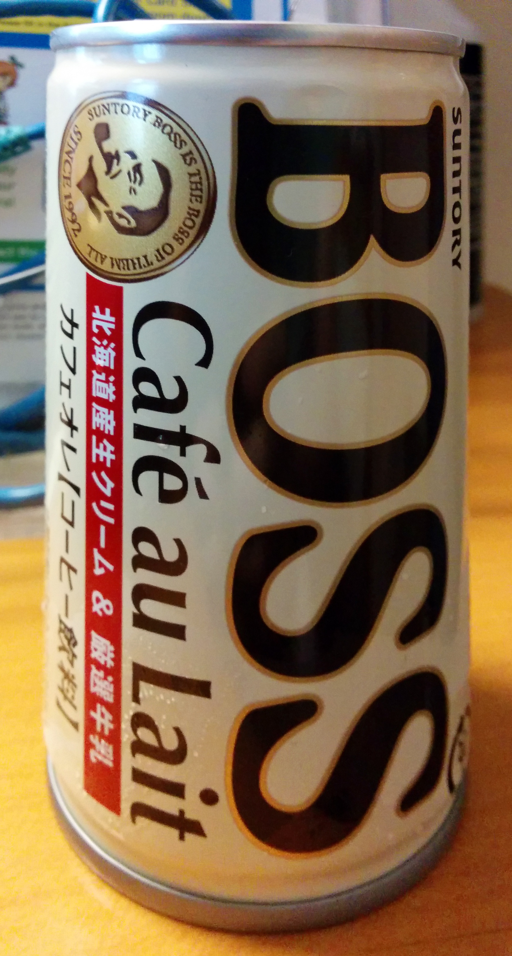 Can of Suntory Boss Cafe au Lait coffee from a vending machine in Japan